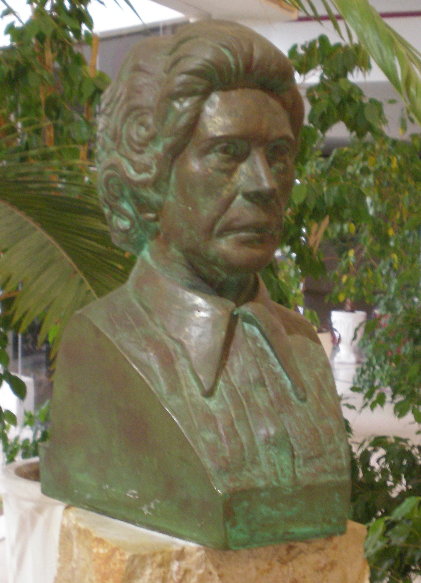 Maria Campina (piano player), Faro, Portugal